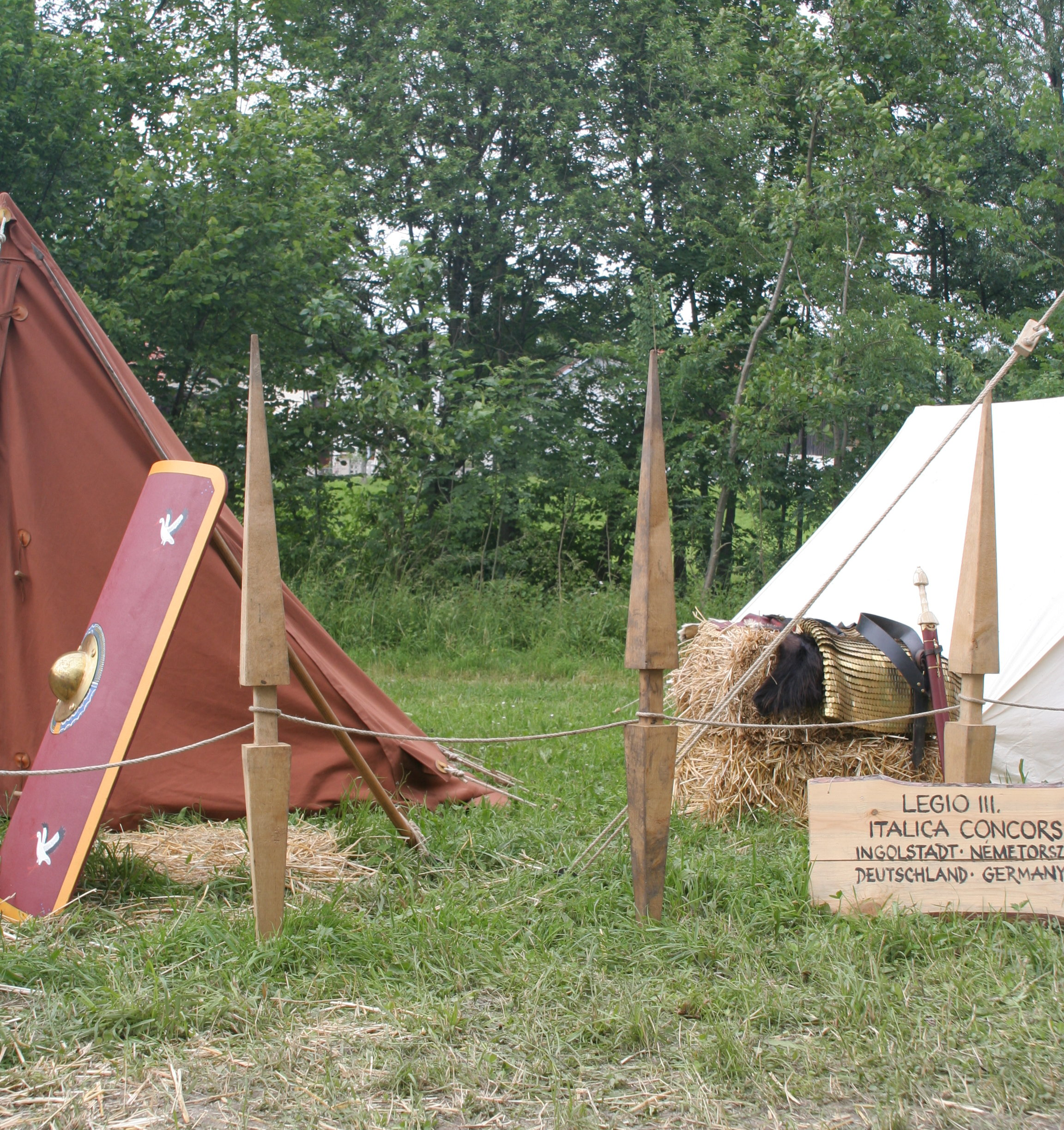 Pilum murale. The distance is not the real distance for fortifications, that was probably 10cm Photographed by myself during a show of Legio XV from Pram, Austria